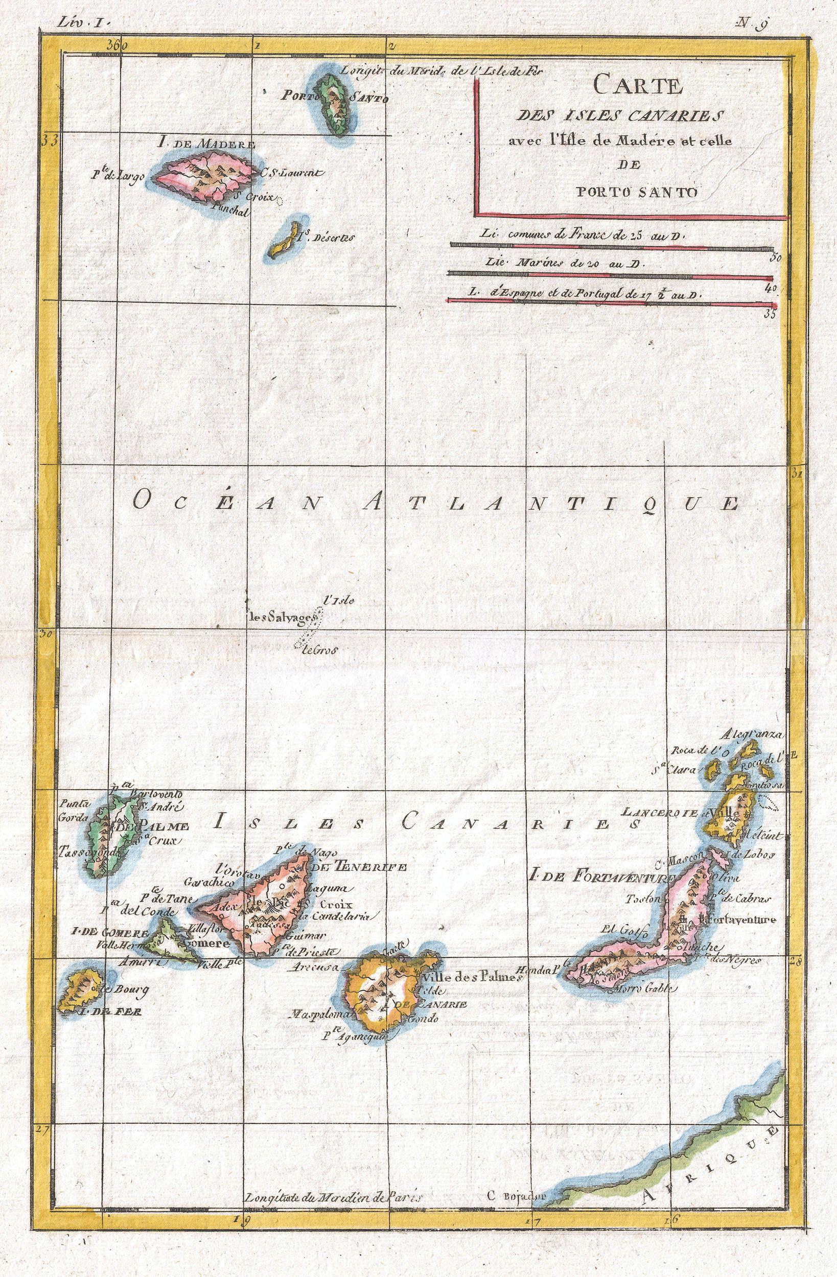 A fine example of Rigobert Bonne and G. Raynal’s 1780 map of the Canary Islands. Shows entire chain along with the Madeira and Porto Santo Islands in the North. Offers relatively good detail, showing towns, rivers, some topographical features, ports and political boundaries. Drawn by R. Bonne for G. Raynal’s Atlas de Toutes les Parties Connues du Globe Terrestre, Dressé pour l'Histoire Philosophique et Politique des Établissemens et du Commerce des Européens dans les Deux Indes .